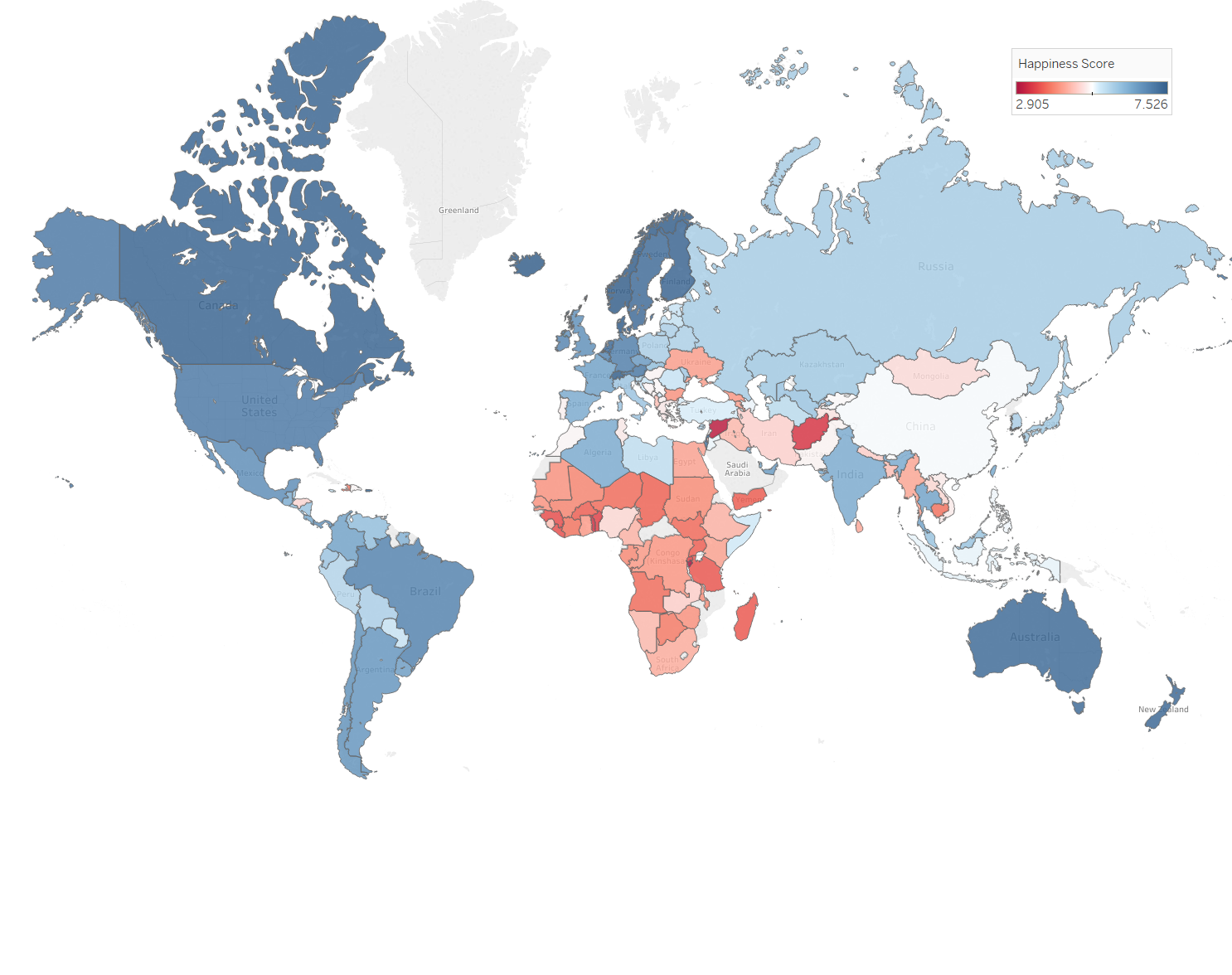 World Happiness Report